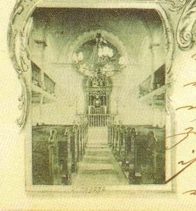 Synagogue in Malbork